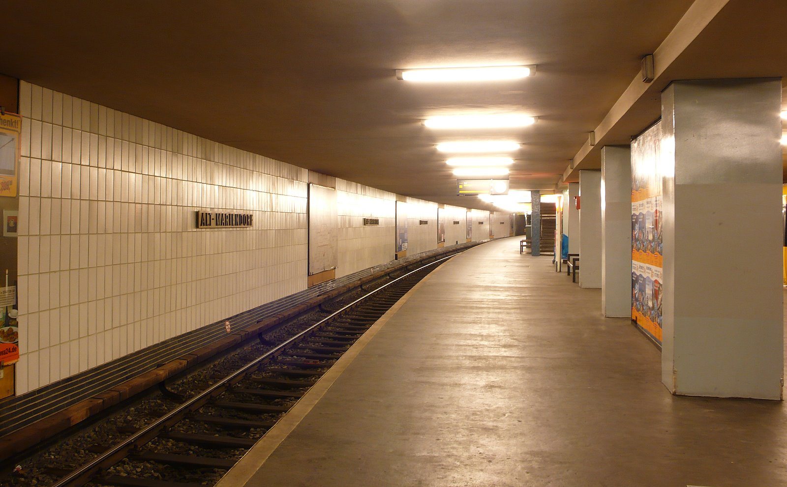 Subway Station Alt Mariendorf